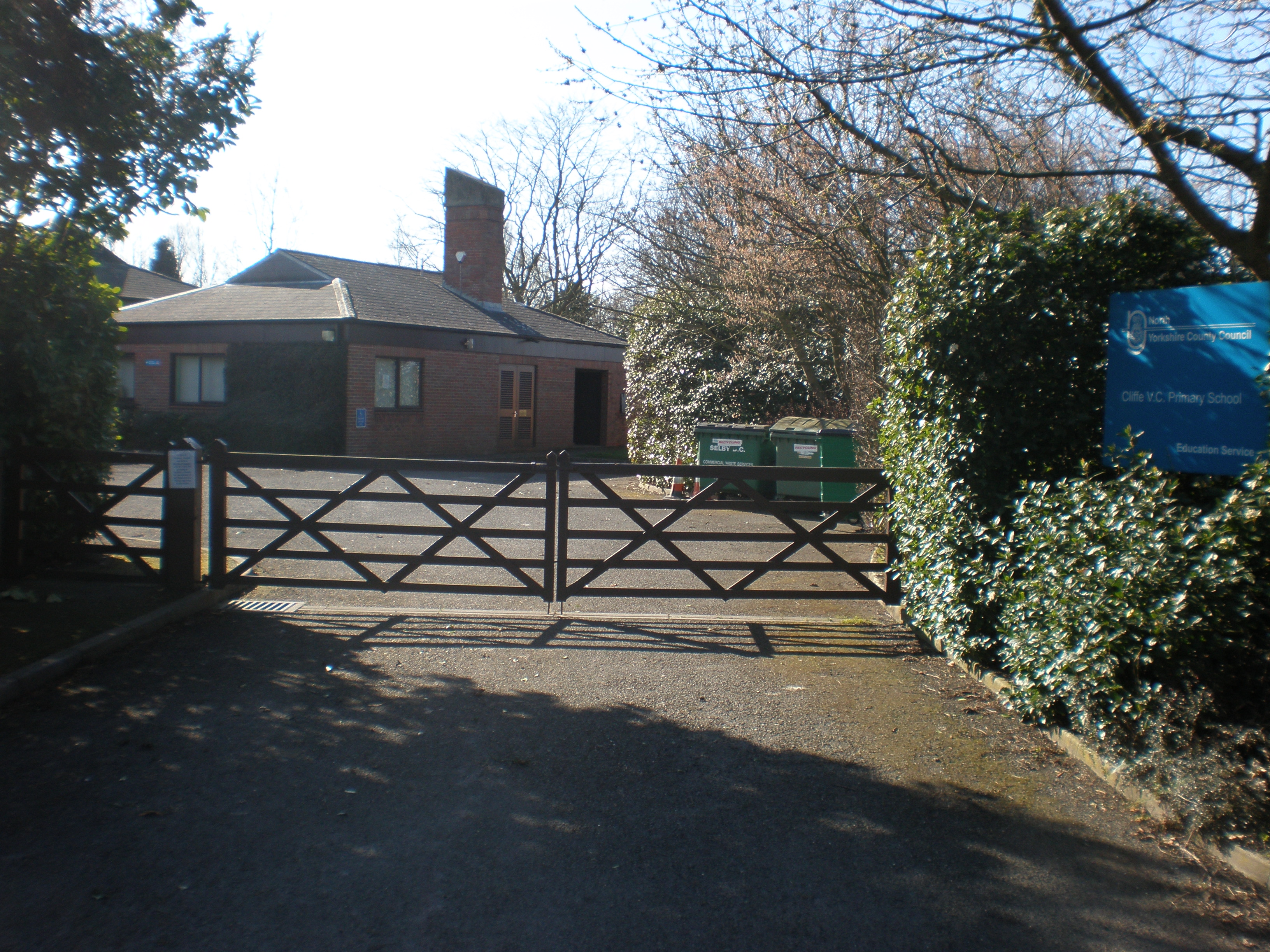 Cliffe Primary School, near Selby